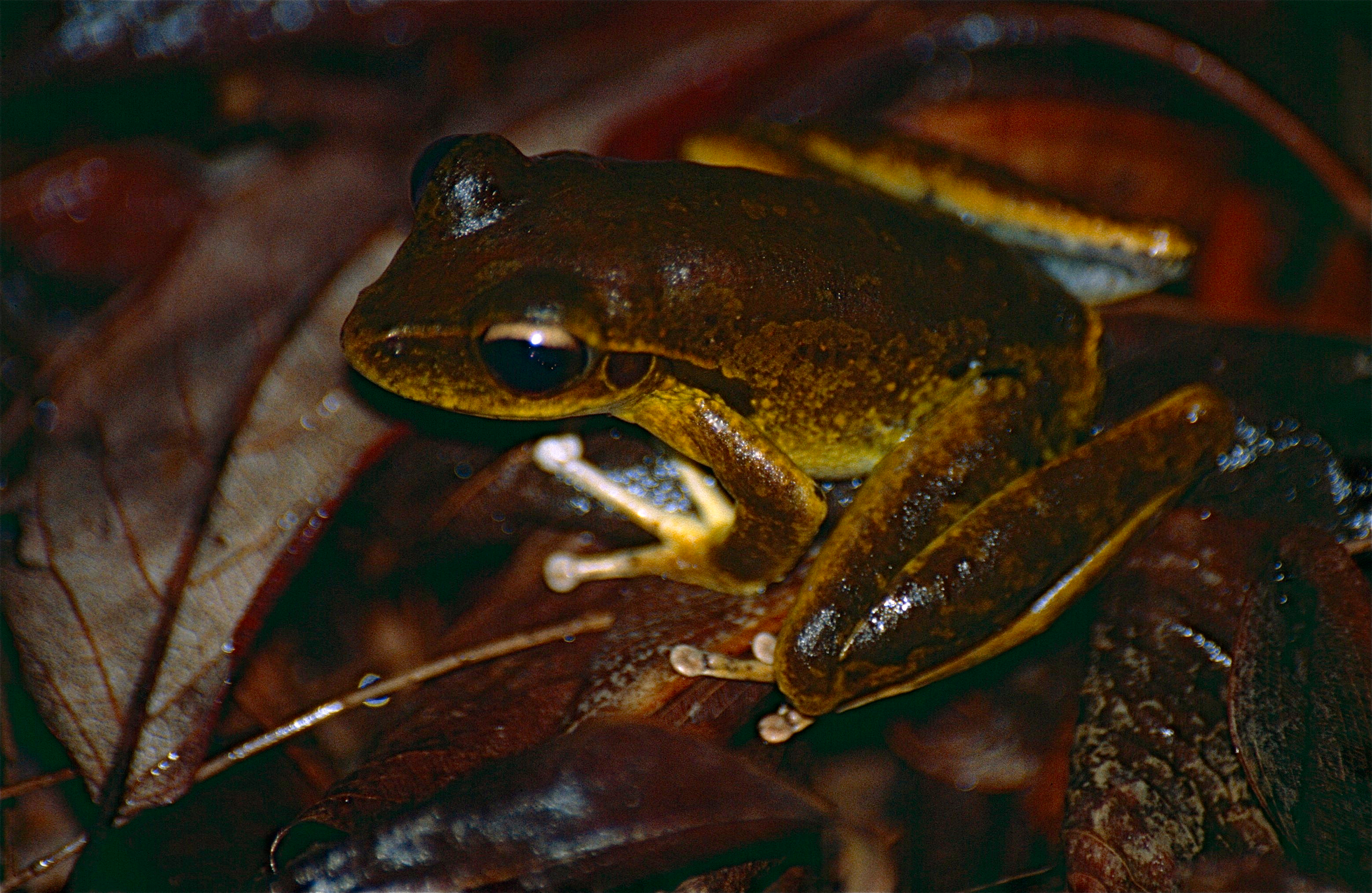 Dubuji Boardwalk, Cape Tribulation, North Queensland, AUSTRALIA Scanned Slide from Nov 2000